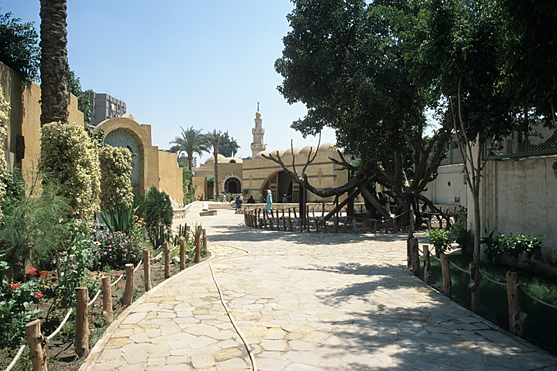 Area of the Virgin Mary tree, el-Matariya, Cairo, Egypt